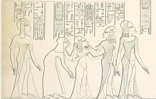 Mutbenret behind the three eldest Amarna Princesses